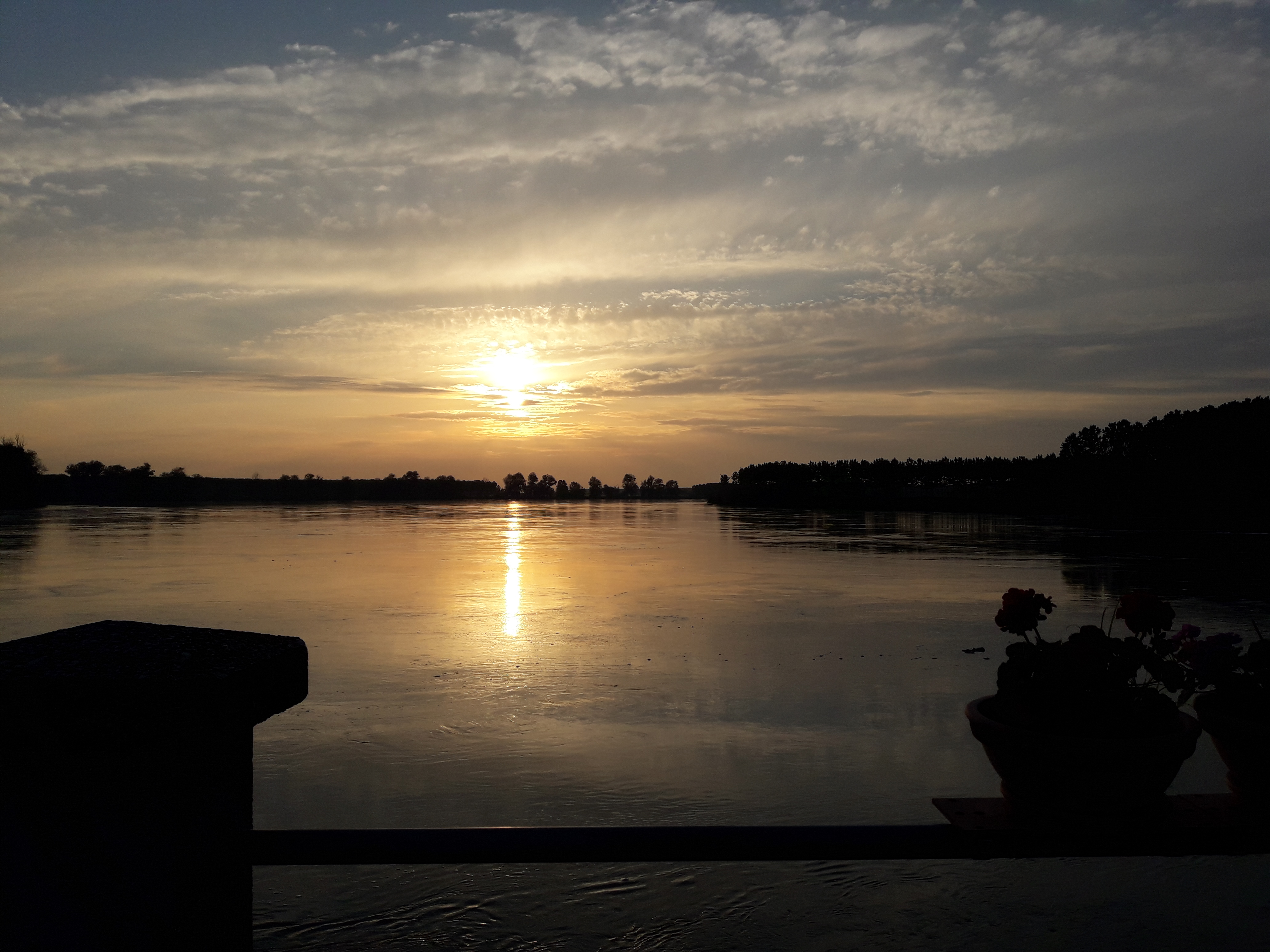 The river Po near to Roncarolo, municipality of Caorso, Piacenza, Italy